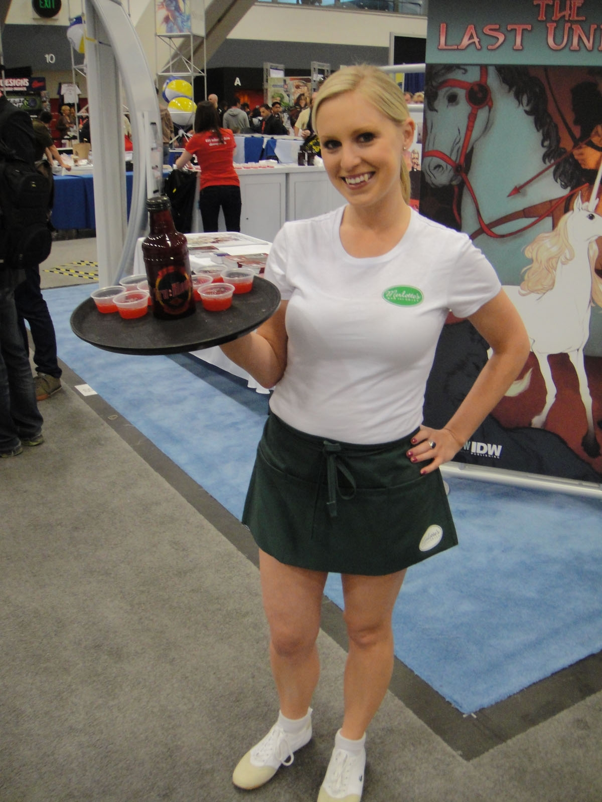 Merlotte's waitress serving Tru Blood at the IDW booth